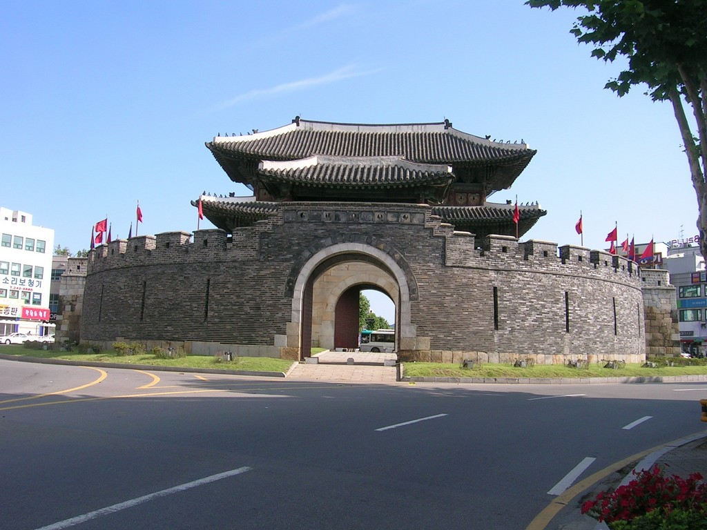 This photo has been taken by Marcopolis (talk) 02:41, 27 February 2008 (UTC), in July 2007 with a digital camera. The photo shows a part of Suwon Hwaseong, located in Suwon, South Korea.